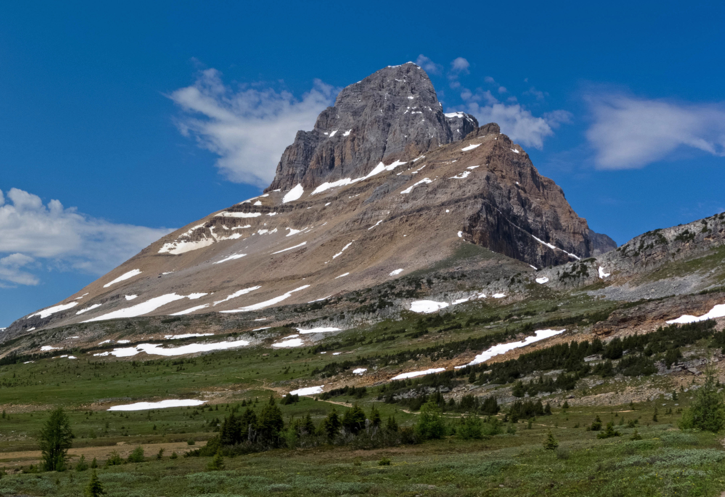 Ptarmigan Peak of Skoki area in Banff